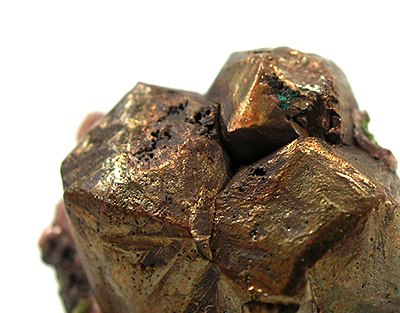 Copper Locality: Adventure mine, Greenland, Ontonagon County, Michigan, USA (Locality at ) Size: thumbnail, 1.5 x 1.4 x 1.3 cm Copper This is a magnificent thumbnail of copper on drusy quartz from the Upper Peninsula of Michigan. The patina of the copper crystals, which reach 1.0 cm, is unusually brassy, with good luster. They are nestled snugly in a blanket of quartz - very aesthetic and unique arrangement! ex. John Saul Collection